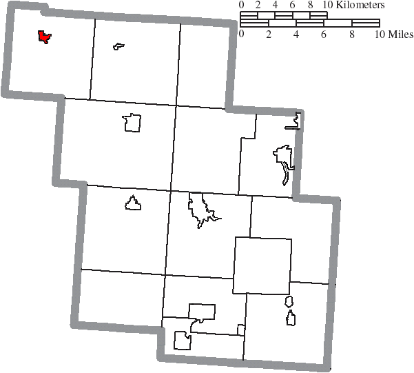 Map of the municipal and township boundaries of Perry County, Ohio, United States, as of the 2000 census, with the location of the village of Thornville highlighted. Township borders are shown only in unincorporated areas in order to differentiate incorporated and unincorporated areas more clearly.